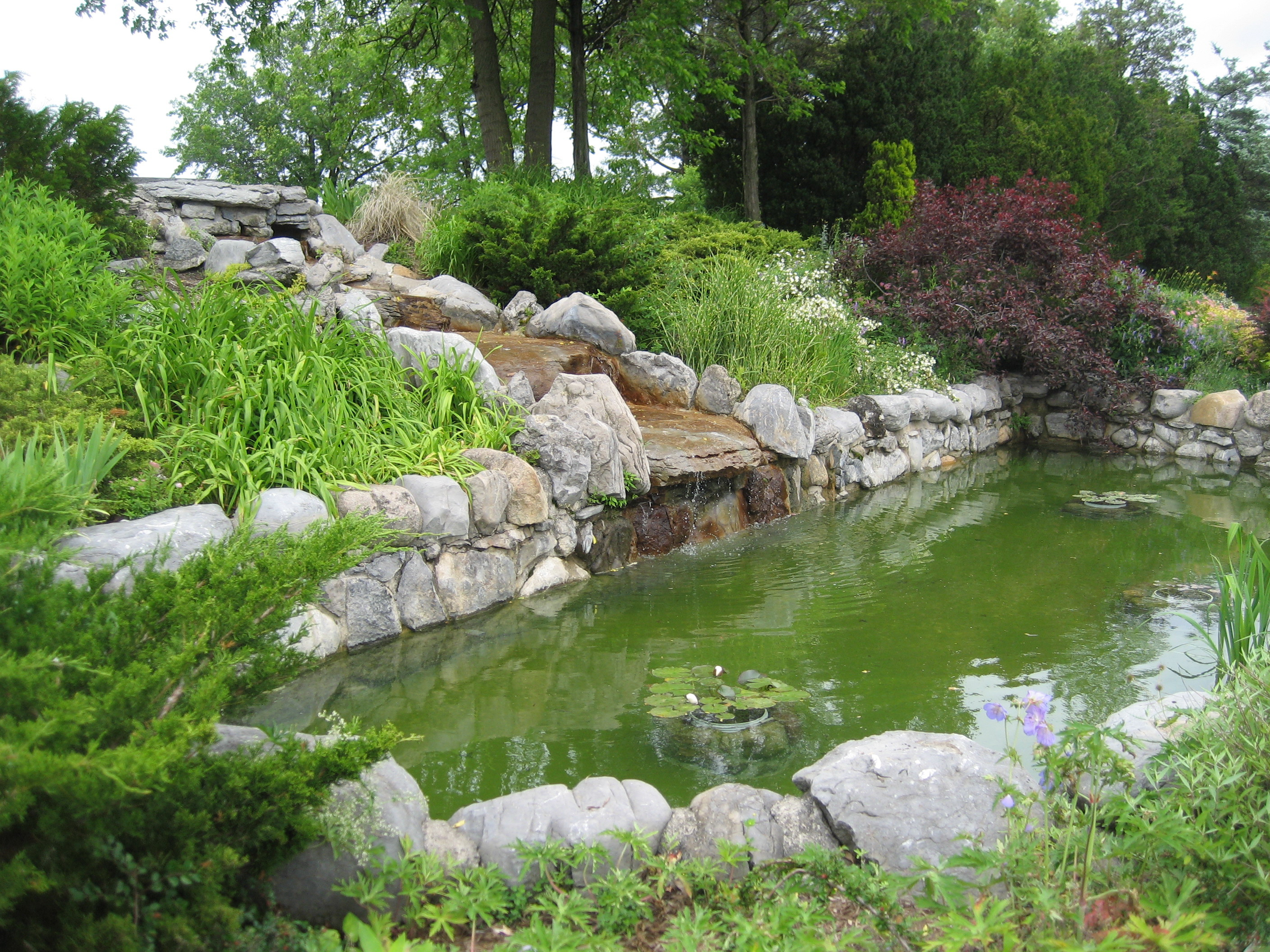 Photograph of the Lily Pond in Thornden Park, Syracuse, New York taken in June.